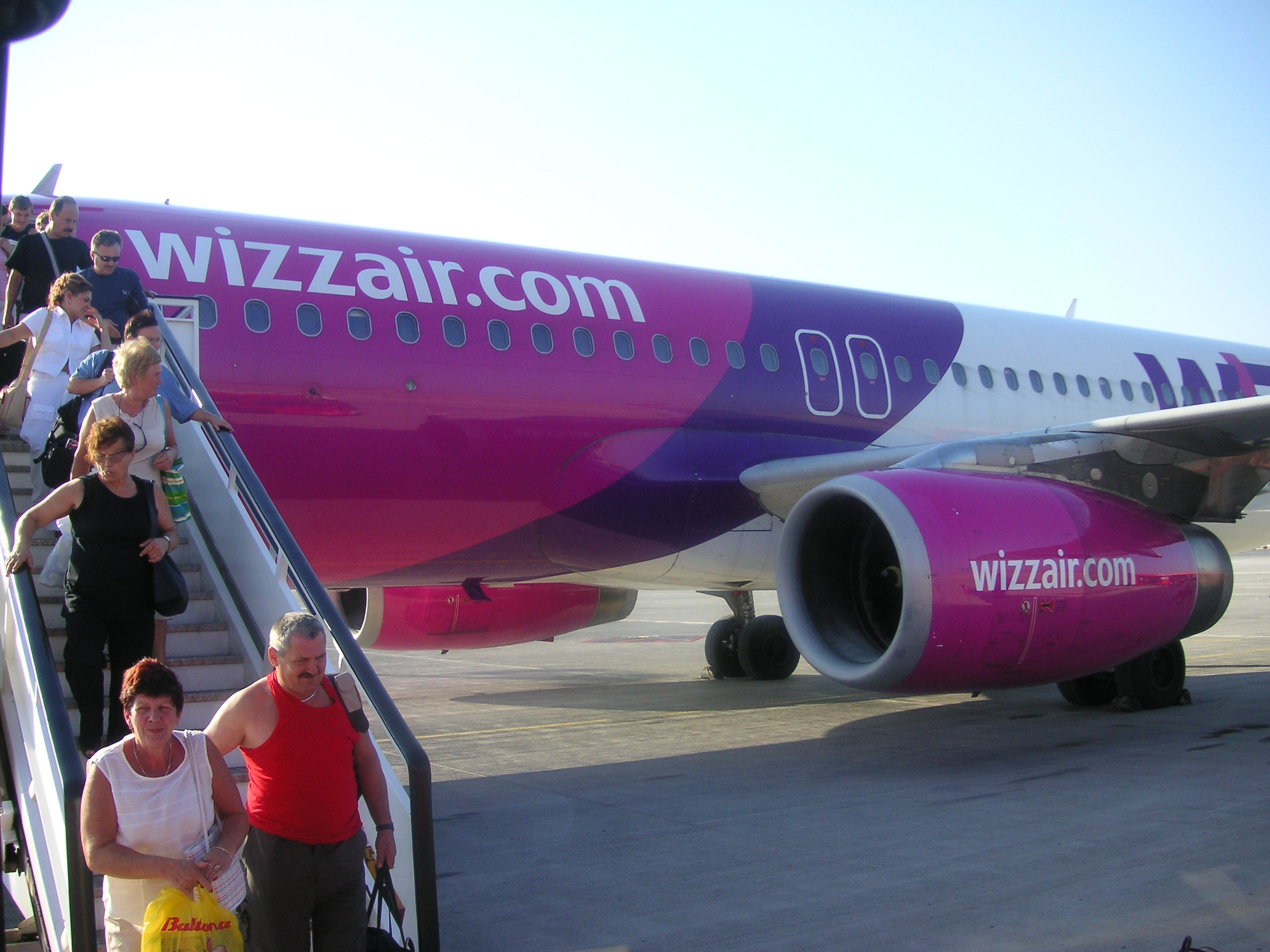 Passengers alighting at Athens International Airport, Greece. Photo by KF, July 2005. This work has been released into the public domain by its author, KF. This applies worldwide. In some countries this may not be legally possible; if so: KF grants anyone the right to use this work for any purpose, without any conditions, unless such conditions are required by law.